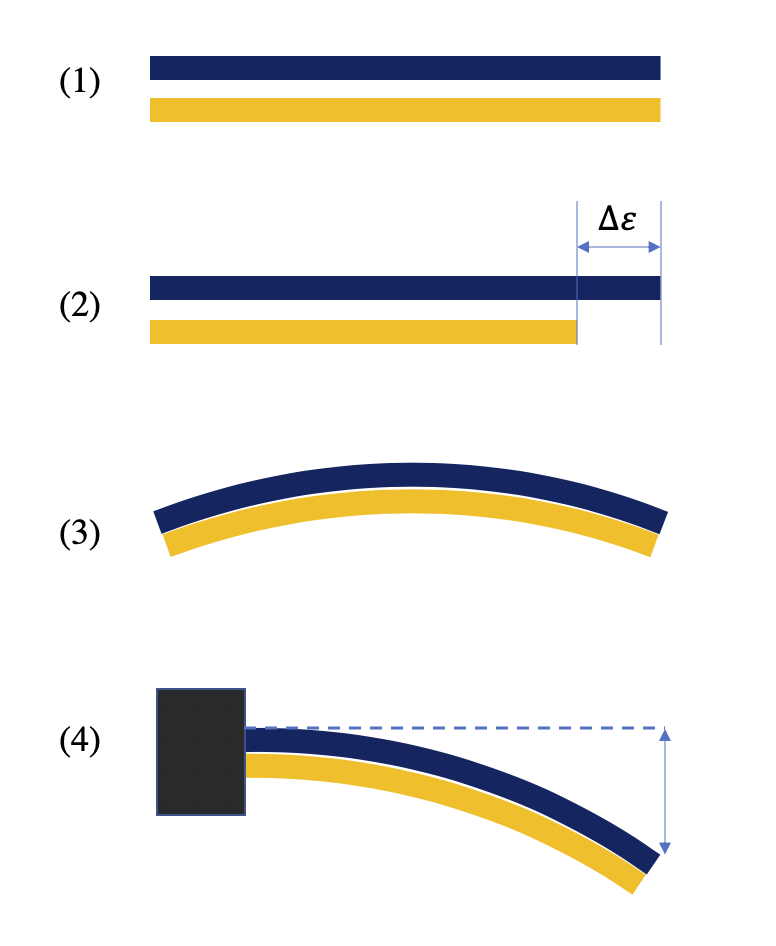 This image illustrates a bimetallic strip, which is made of two metals of difference in thermal expansion. Initially, two metal strips are of equal length (1). Under temperature change, two unbonded metal strips start to differ in length (Δε) (2). When being bonded together, the internal stresses caused by the length difference result in the curvature (3). When the bimetallic strip is clamped at one end, the curvature will be measured (4).